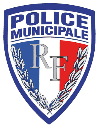 Drawing of the police patch of the French Municipal Police